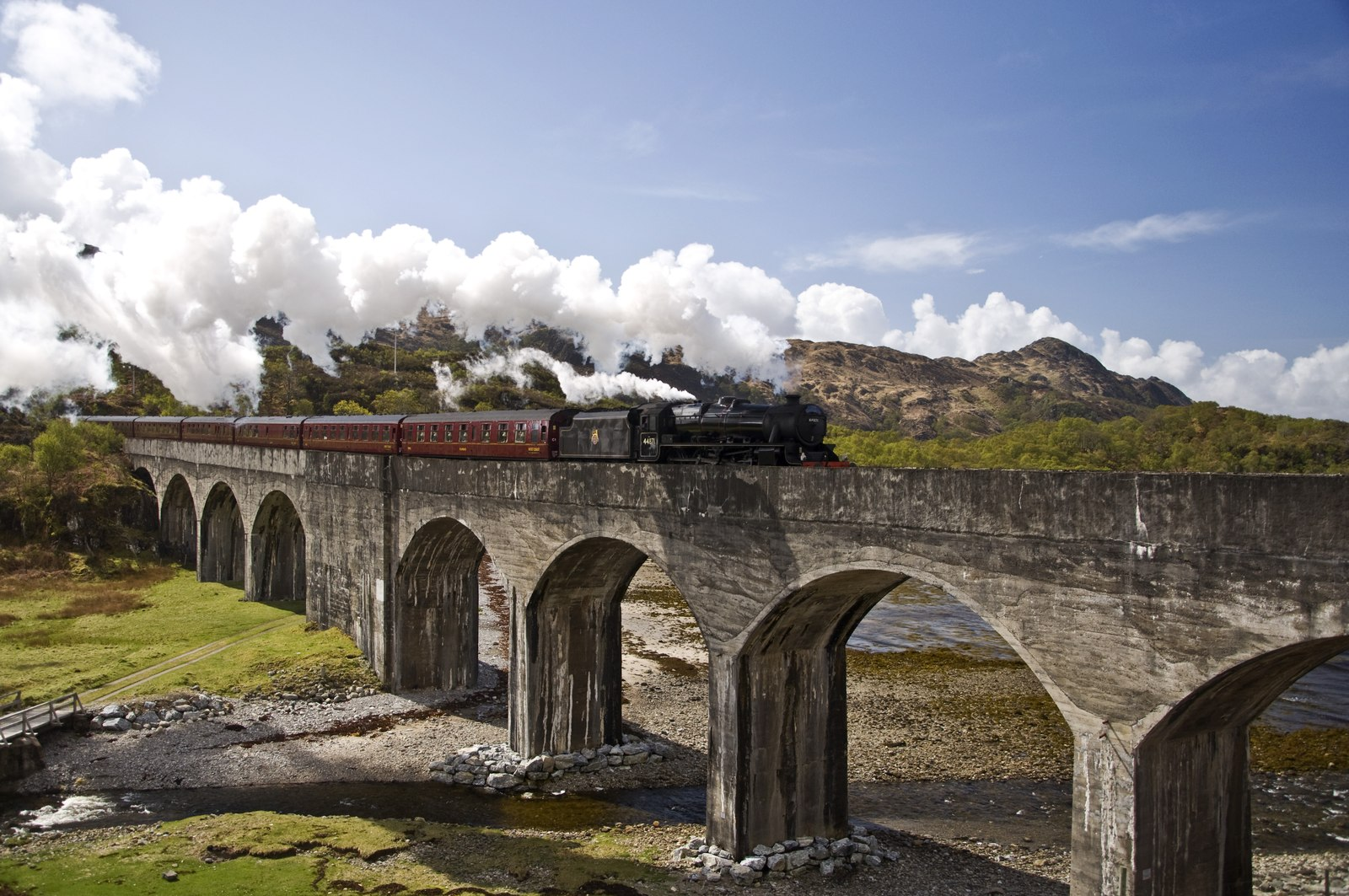 Jacobite Express crosses the Loch nan Uamh Viaduct